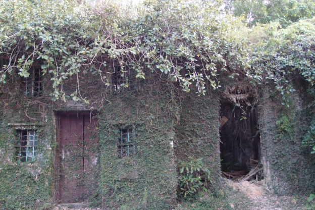 赤徑村的廢屋